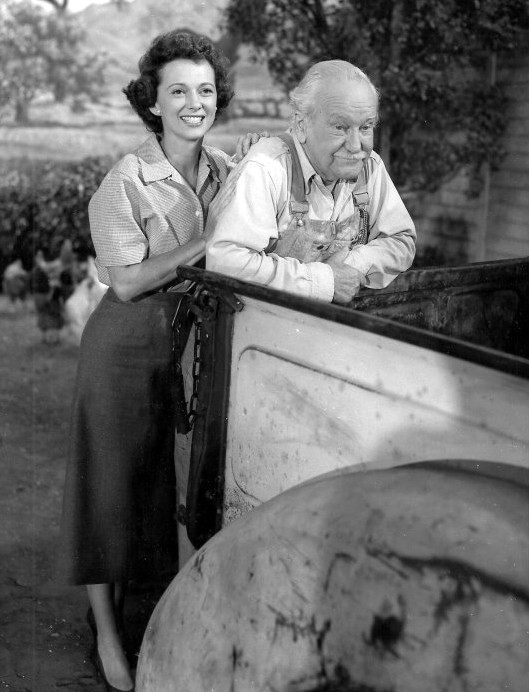 Photo of Jan Clayton as Ellen Miller and George Cleveland as "Gramps" Miller from the television program Lassie.